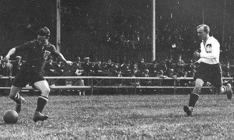 Ferenc Hirzer (left) and Wawrzyniec Cyl (white shirt).